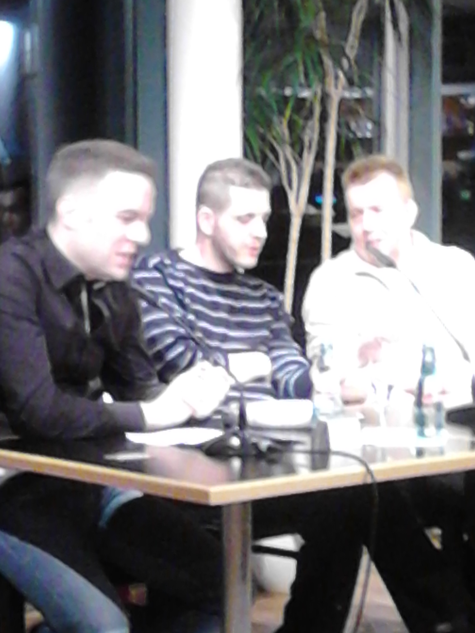 Nir Baram (middle)